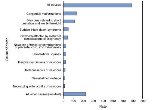 Infant mortality rates in the United States per 100,000 live births for 10 leading causes of , 2005